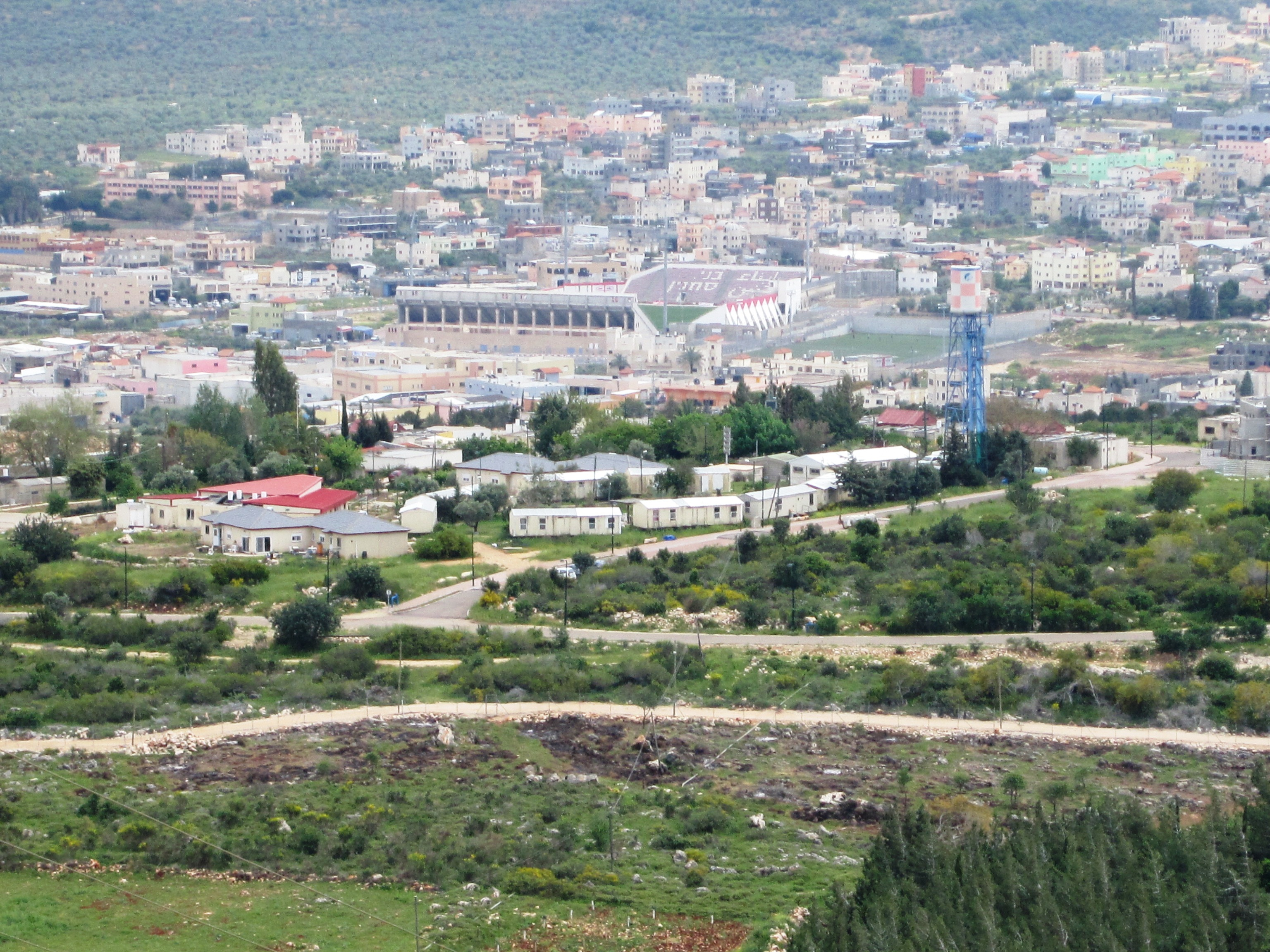 kibbutz eshbal קיבוץ אשבל, מראה מאשחר.